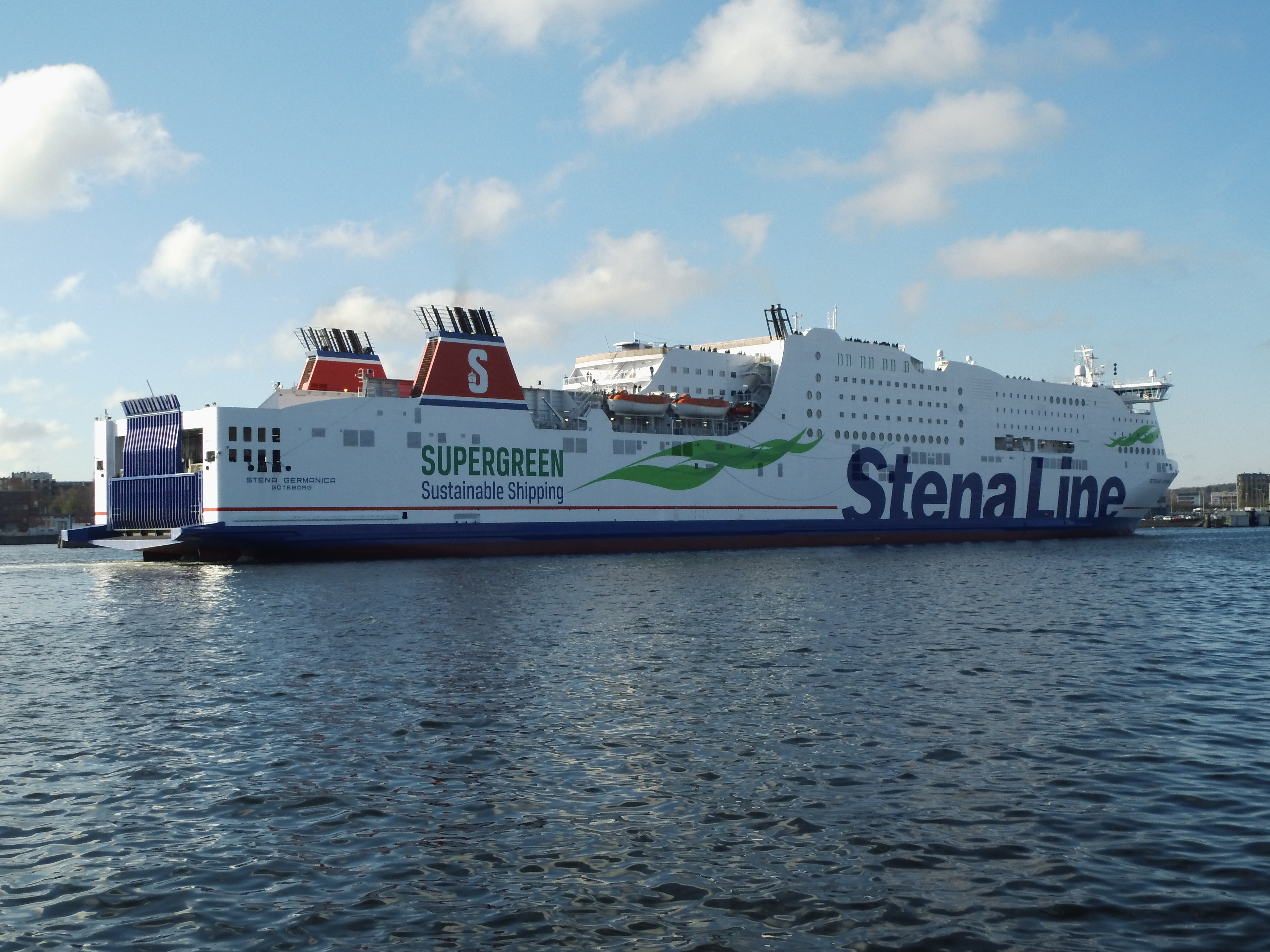 Stena Germanica in Kiel after conversion of engine to methanol.